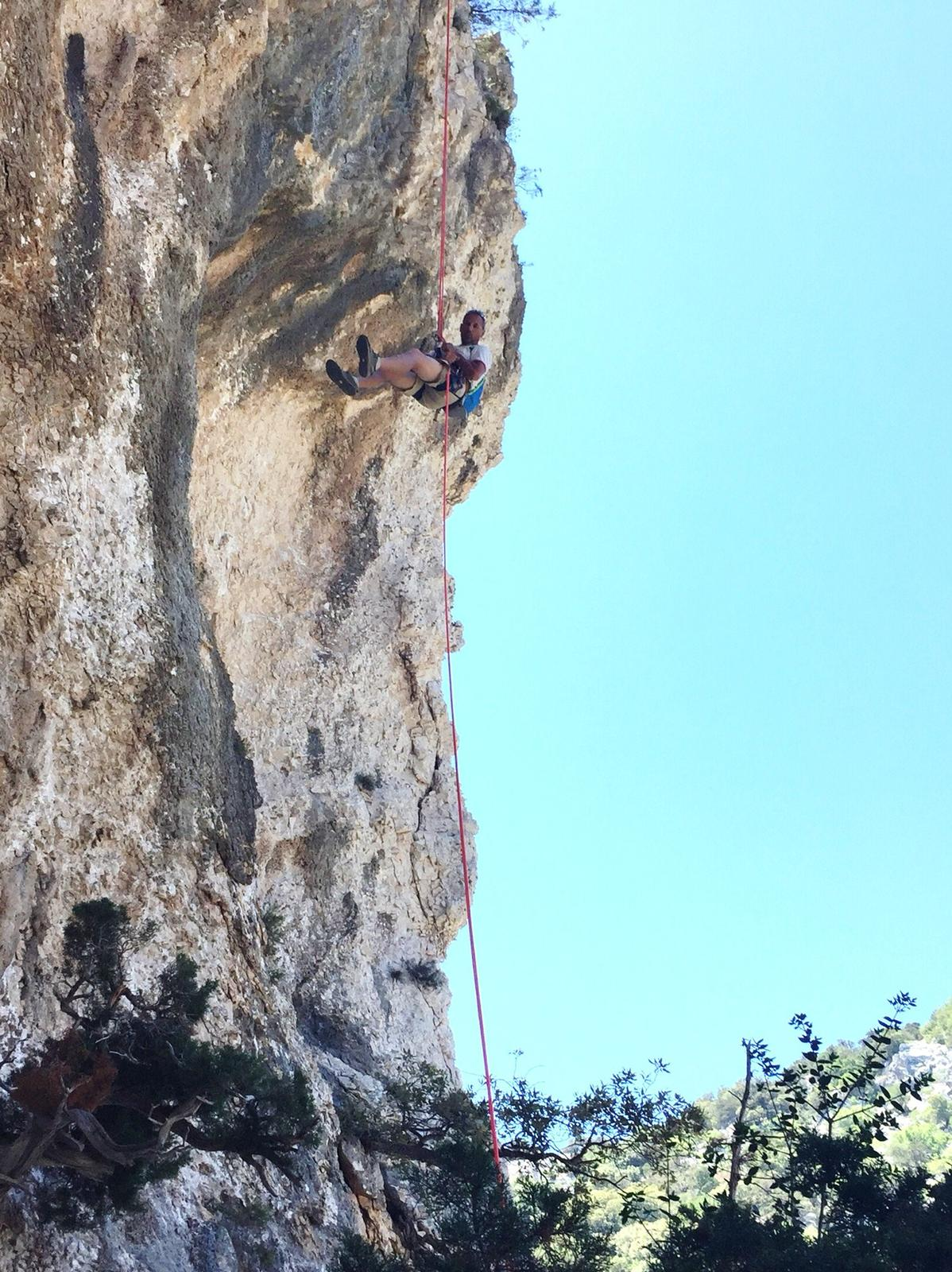 One of the two abseiling of Selvaggio Blu